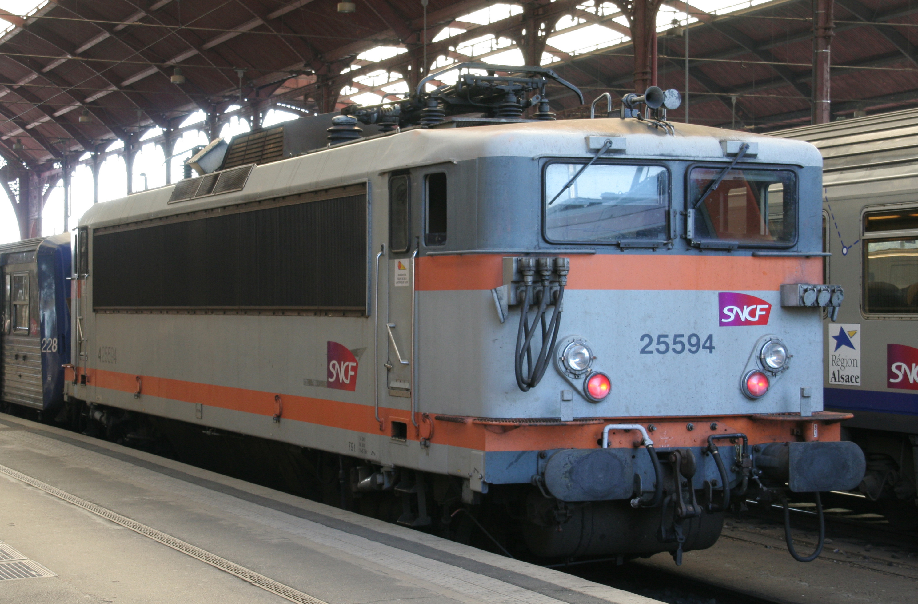 255500 Electric loc in Strasbourg